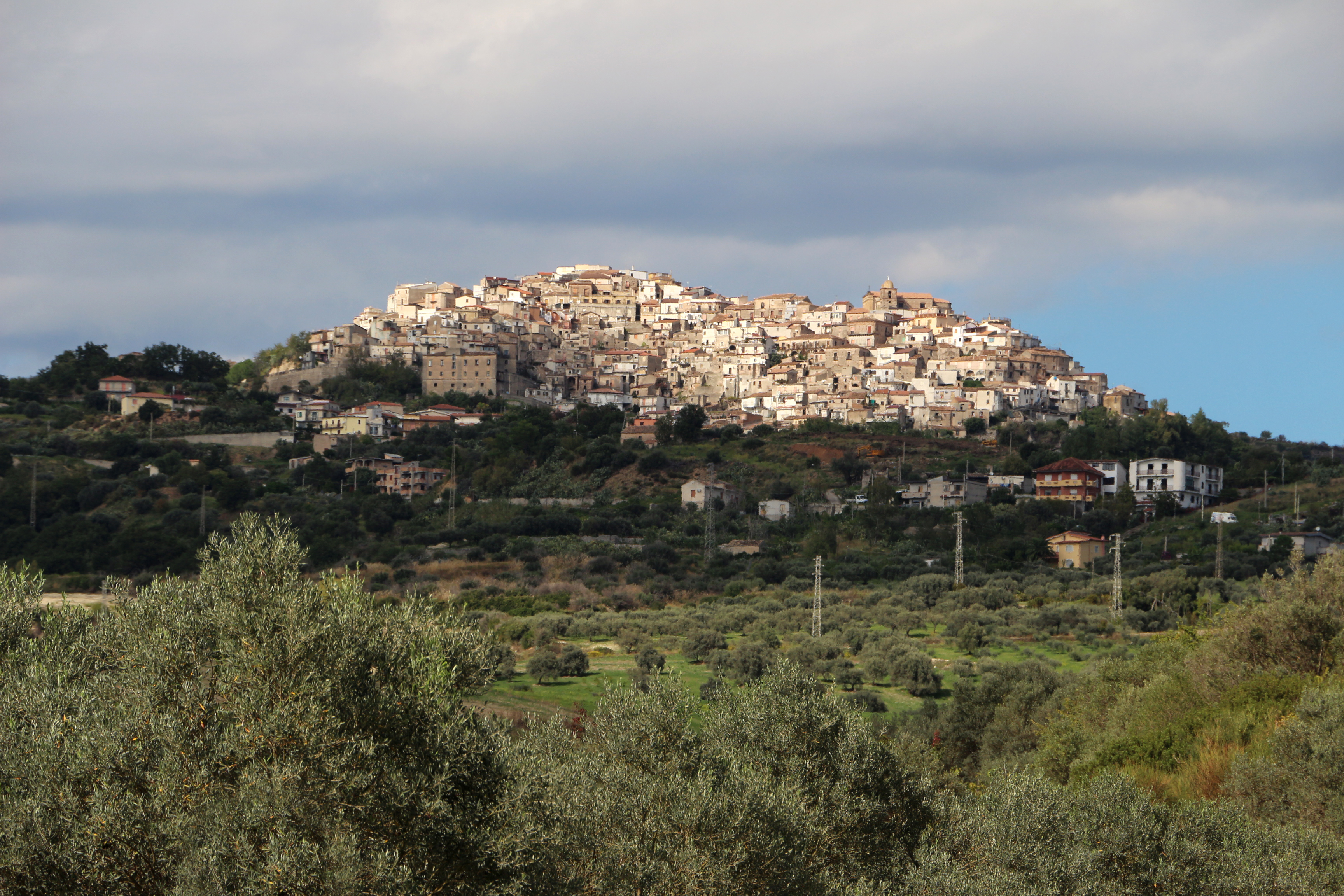 Stignano